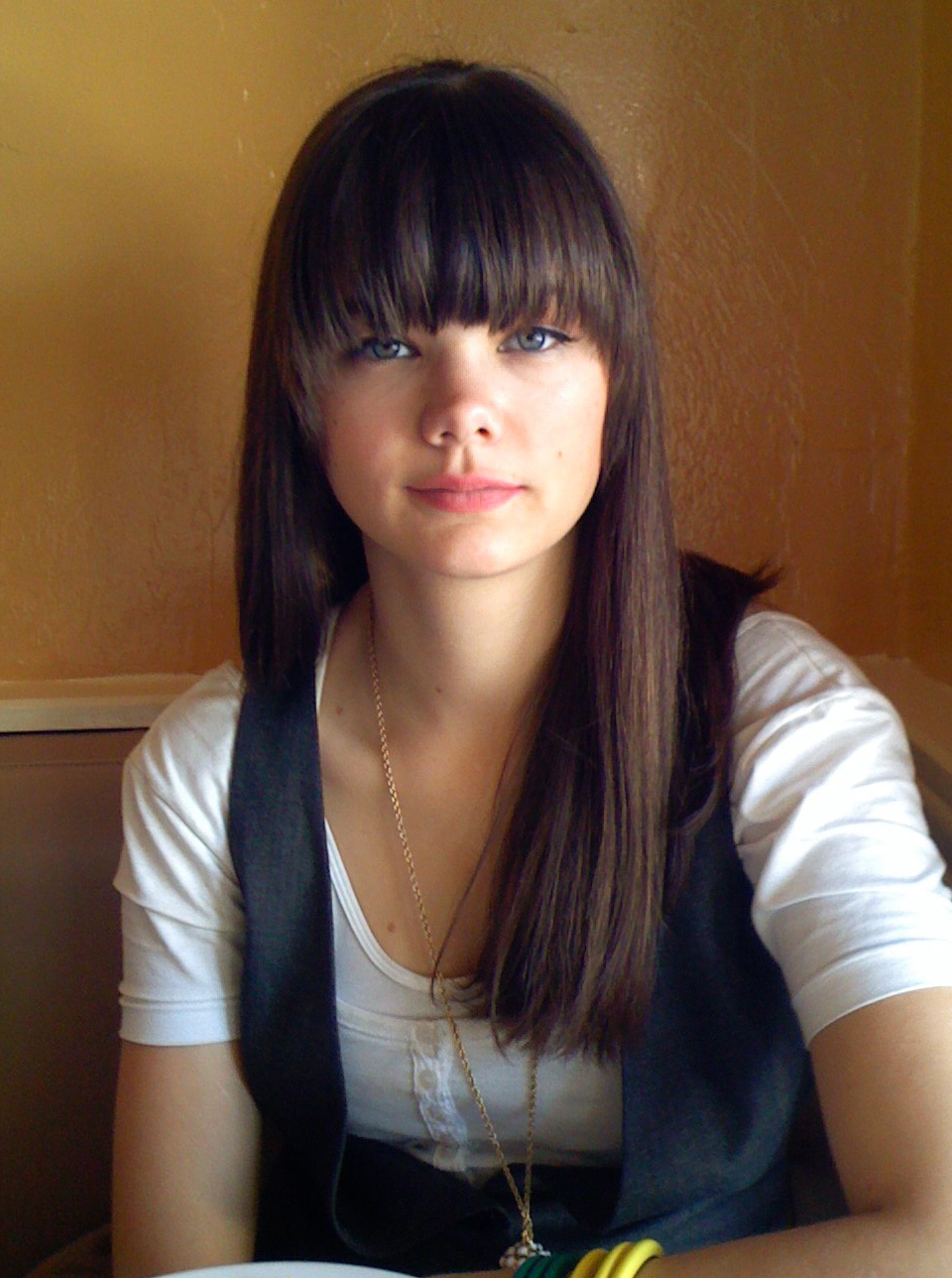 Mary Elise Hayden